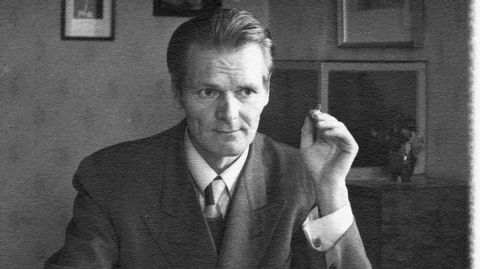 Photograph of the Finnish composer Jaakko Linjama (1909–1983).